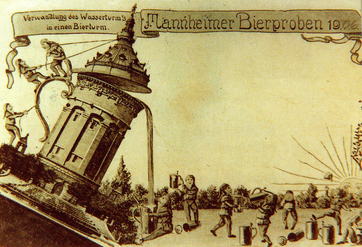 Humoristic drawing of the water tower in Mannheim, Germany. The text reads: "Turning the water tower into a beer tower: Mannheim beer tasting, 1906."